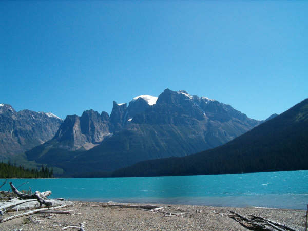 Erik Lizee